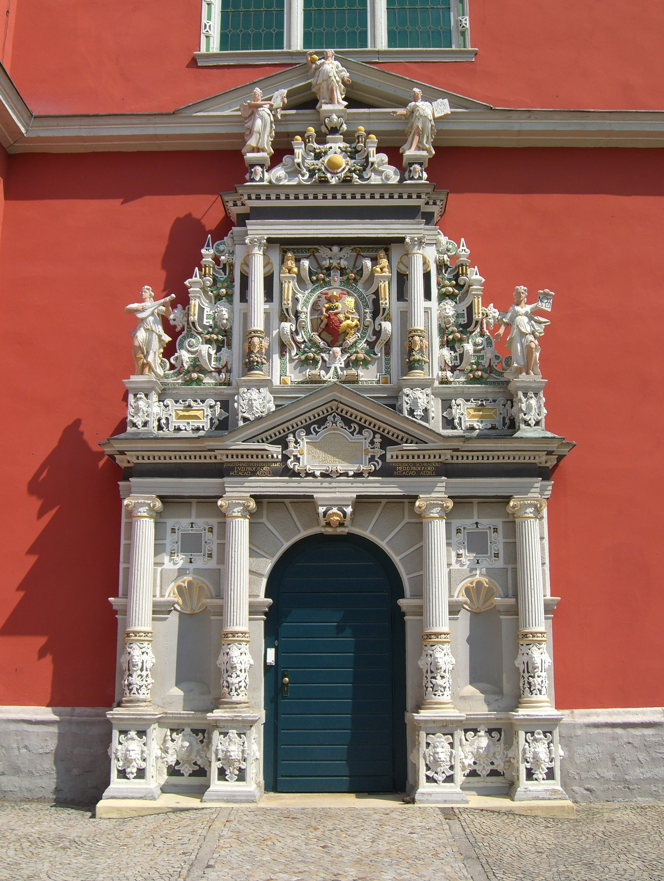 Helmstedt: main or auditorium portal of the Juleum with university seal above the door. Additionally five statues of the seven liberal arts: “Astronomy” palming a firmament (on top of the portal), “Grammar” palming a slate pencil and a slate board (at the left in the second row), “Arithmetics” palming a board with numbers (on the right in the second row), “Music” palming a lute (on the left in the bottom row), “Geometry” palming a compasses and a roll (on the right in the bottom row). There are absent “Rhetoric” and “Dialectic” (“Logic”), which, possibly, stood earlier in bowls at the left and at the right of the door.